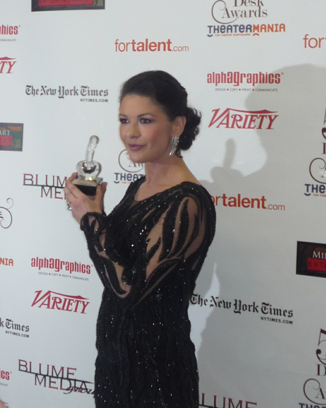 One of the winners in the tie for Outstanding Actress in a Musical, Catherine Zeta-Jones